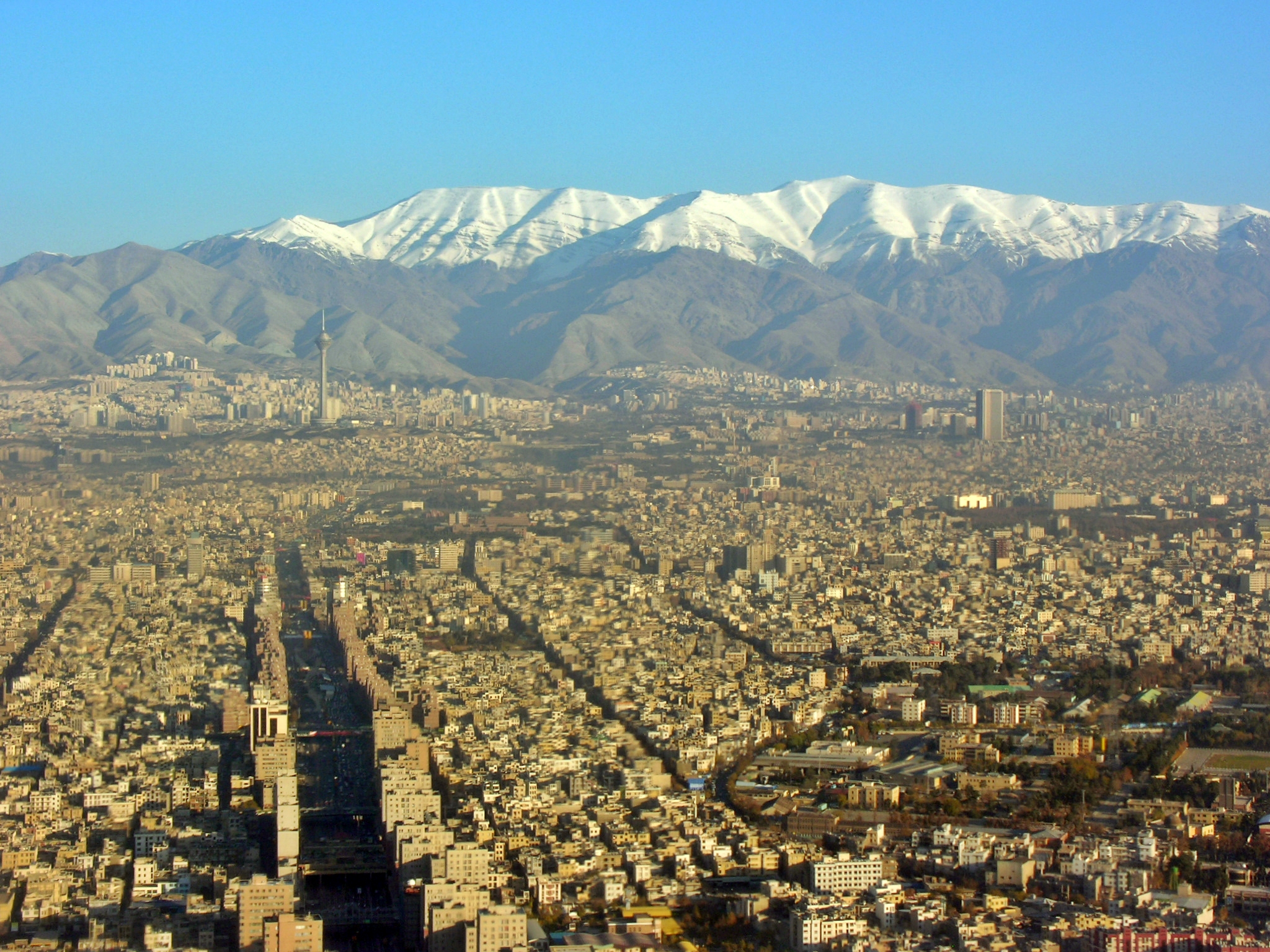 Iran, aerial View of Tehran